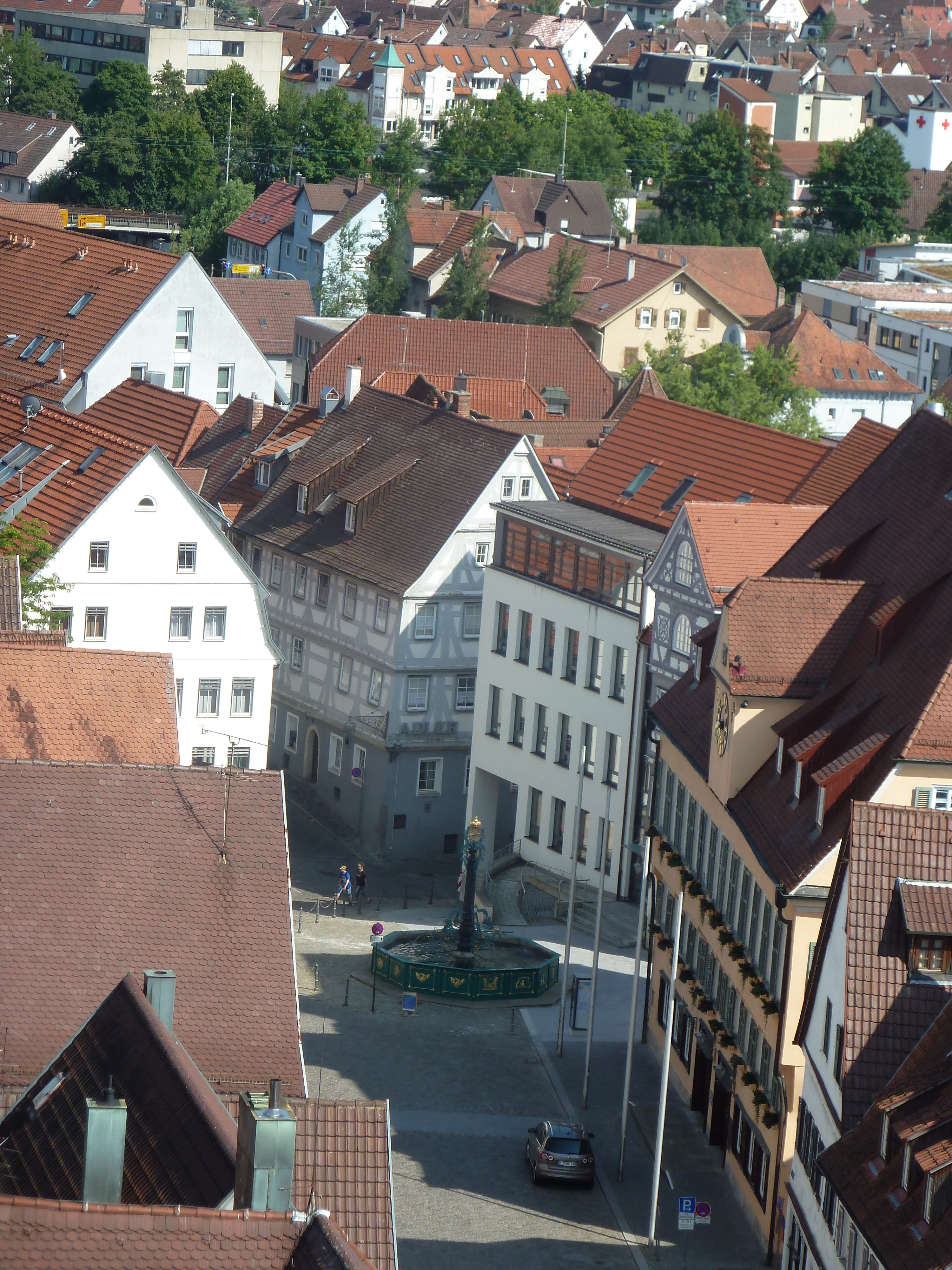 Aerial view from church tower to city centre, Nuertingen, Germany